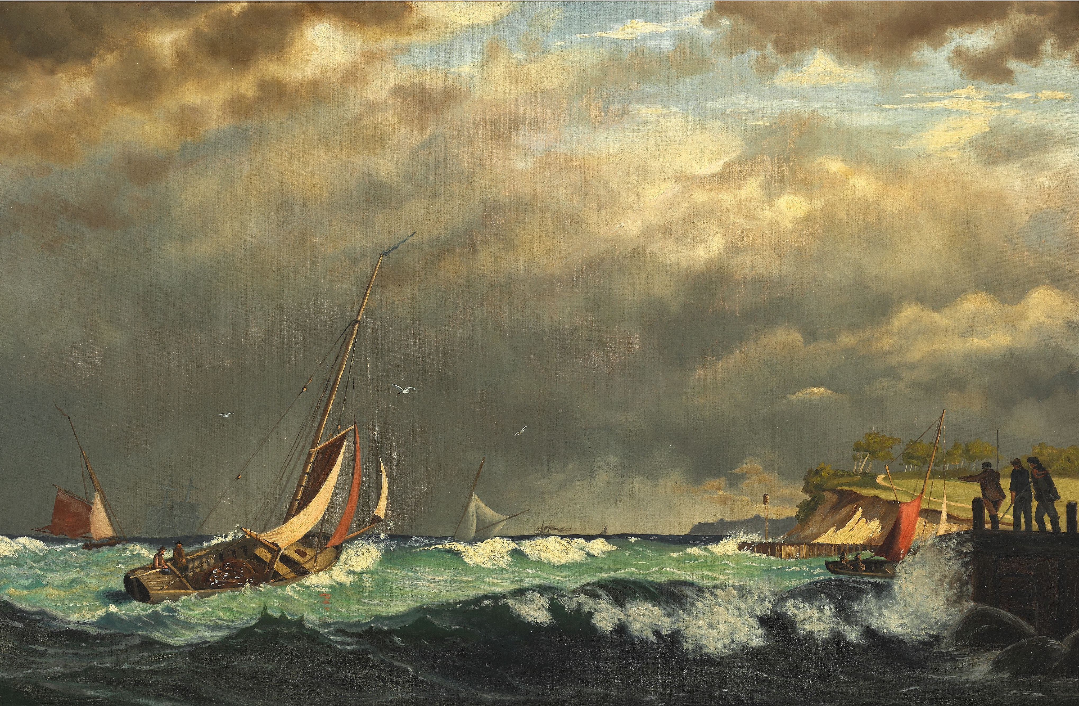 Presumably from the island of Ærø